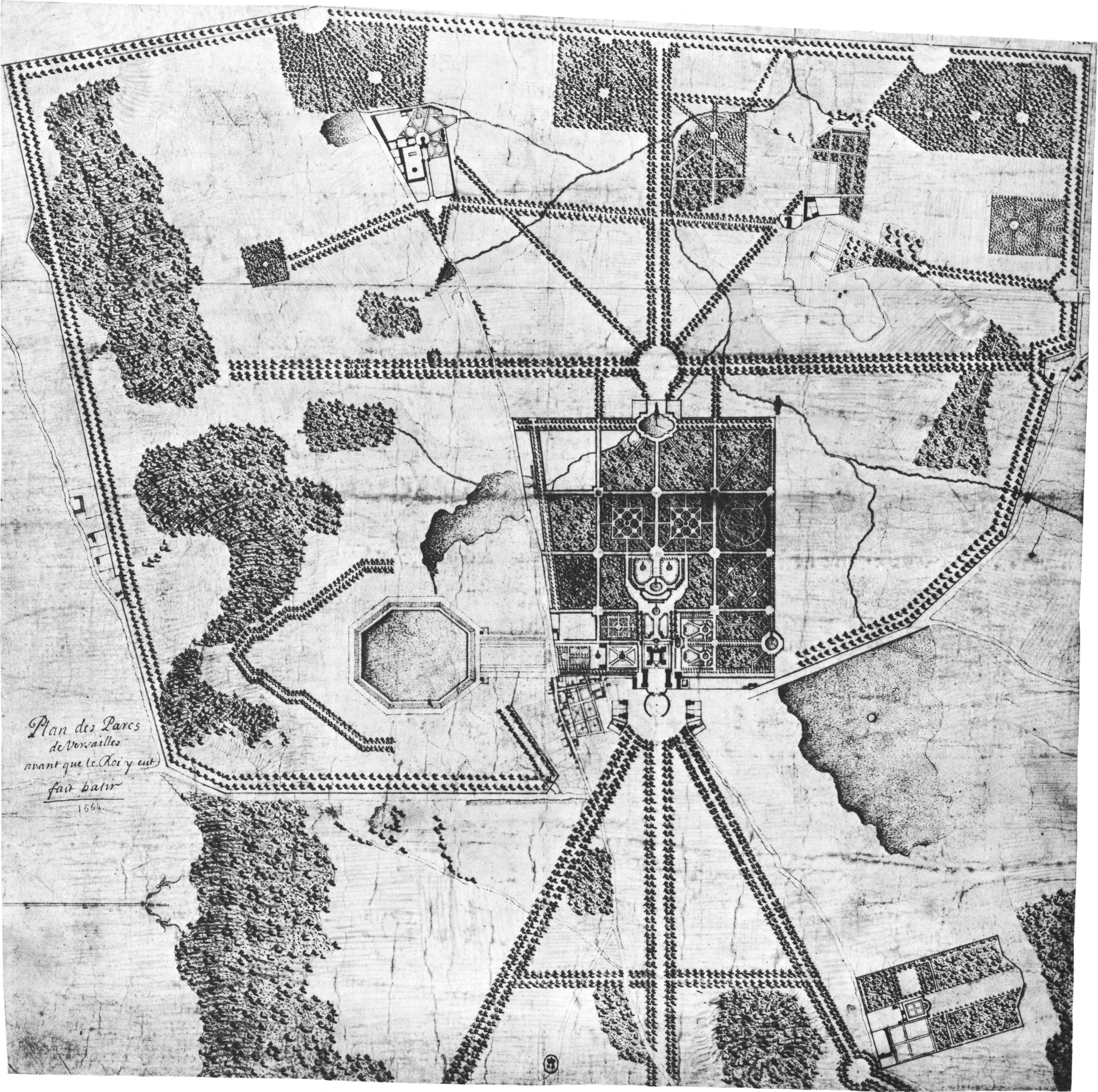 Anonymous plan of the Palace of Versailles and Garden of Versailles (Bibliothèque Nationale, Paris, Cabinet des Estamples, Va 448b)